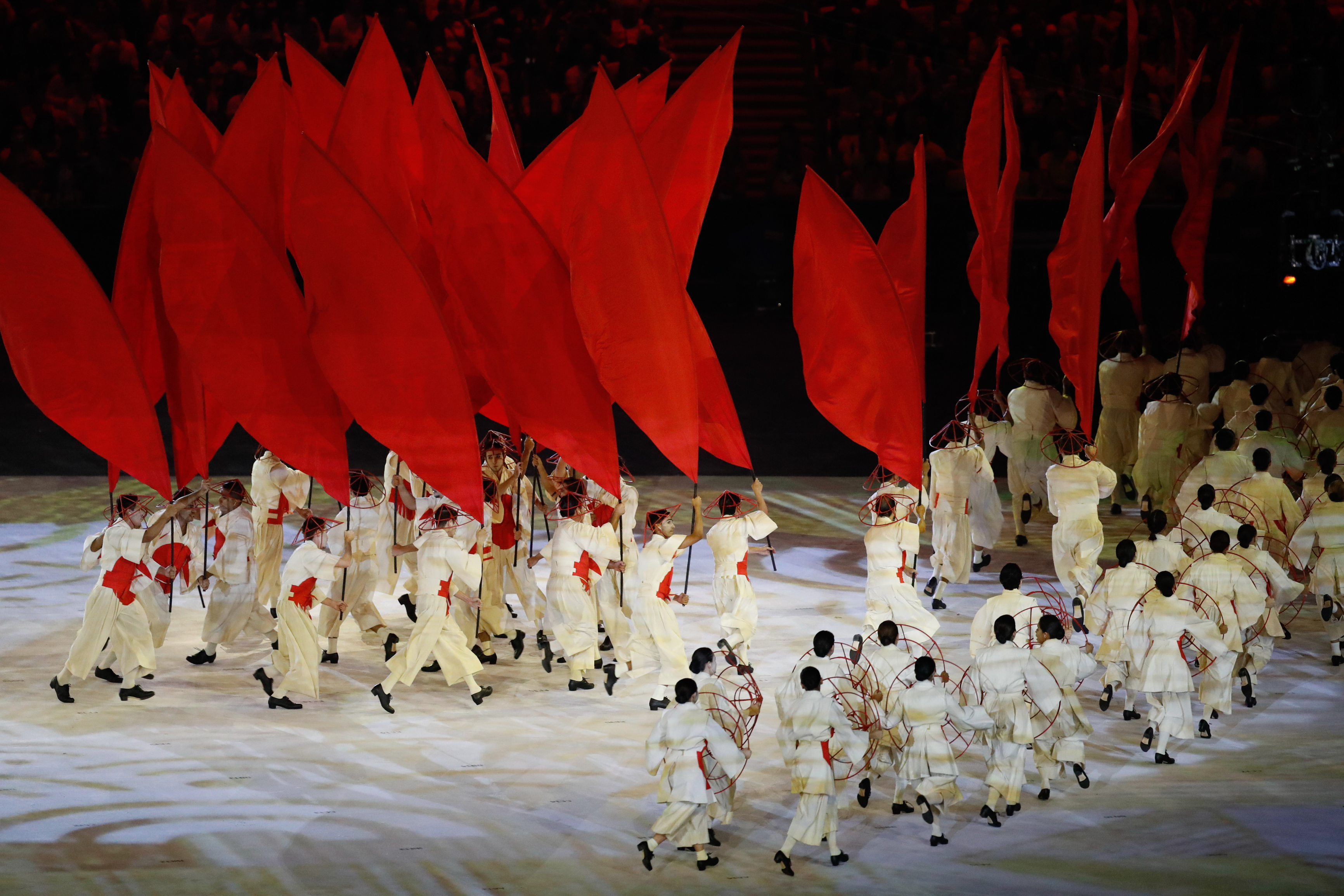 Rio de Janeiro - Cerimônia de abertura dos Jogos Olímpicos Rio 2016 no Estádio do Maracanã. (Fernando Frazão/Agência Brasil)